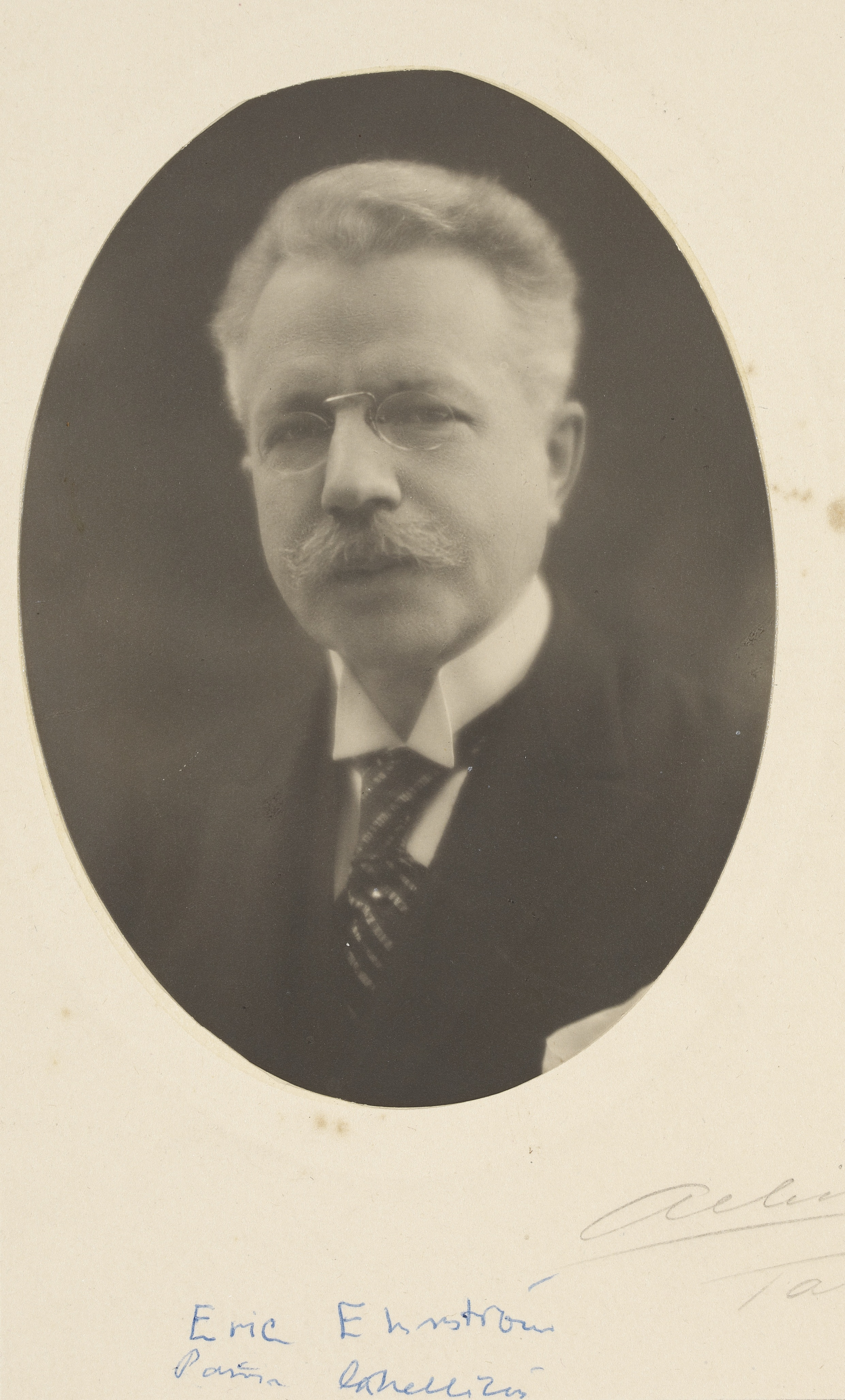 Photograph of the Finnish diplomat Erik Ehrström (1869–1947).